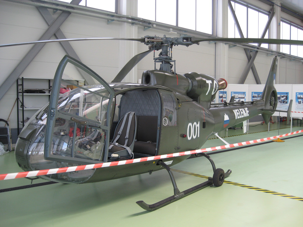 This is a repainted Slovene Teritorial Defense Gazelle (Predcedor of the SLovenian army) painted in its original ocolors after it defected from the YPA in 1991. It is currently stationed Cerklje air base and it is currently not flyable because it crashed in 1994.